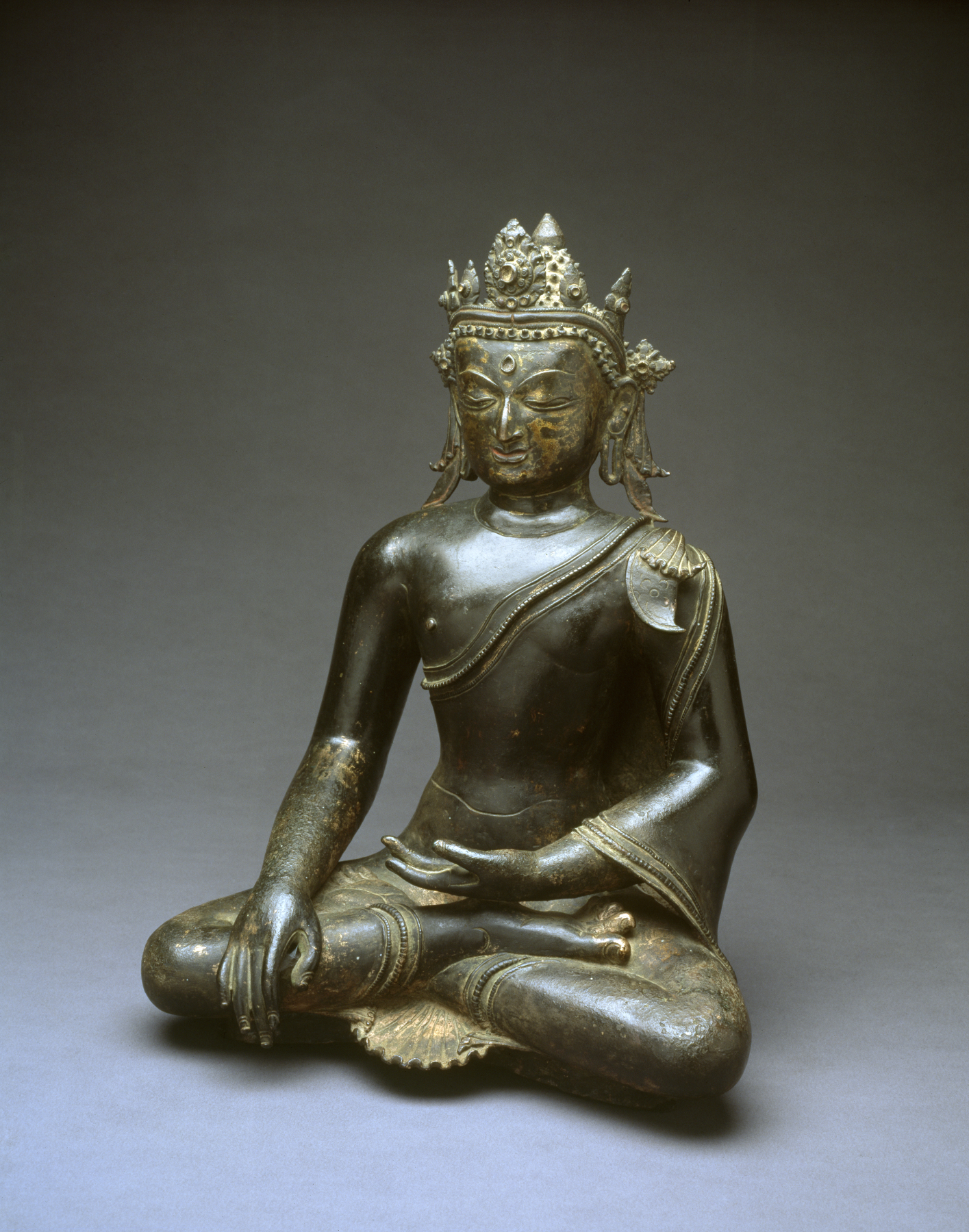 Around the year 1000, it became common in Pala India to depict the Buddha Shakyamuni with a crown on his head to indicate that at the time of his enlightenment he was crowned by cosmic Buddhas. This belief was carried to Tibet. It had a real-life counterpart in the diadem initiations practiced by Tantric Buddhists-ritual crownings that signified passage to a still-higher spiritual status.